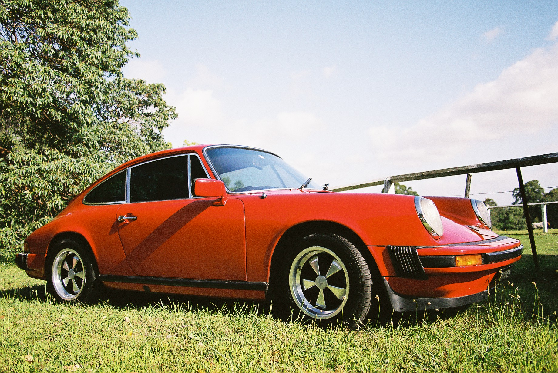 1976 Porsche 911 with 2.7 l motor. View: right side